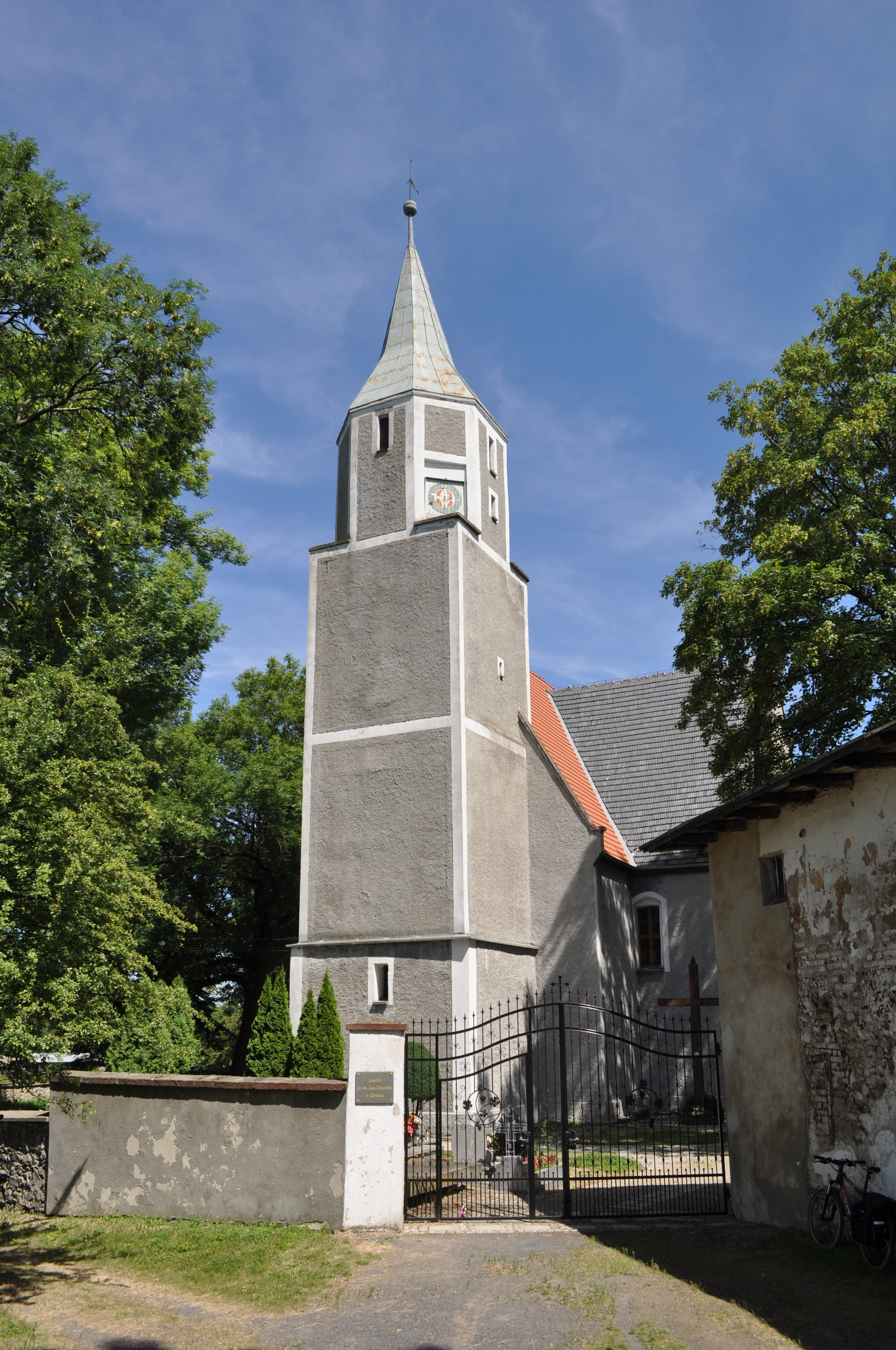 Saint John the Baptist church in Chełmiec, Poland